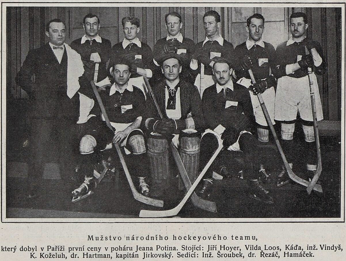 Czech ice hockey team 1923